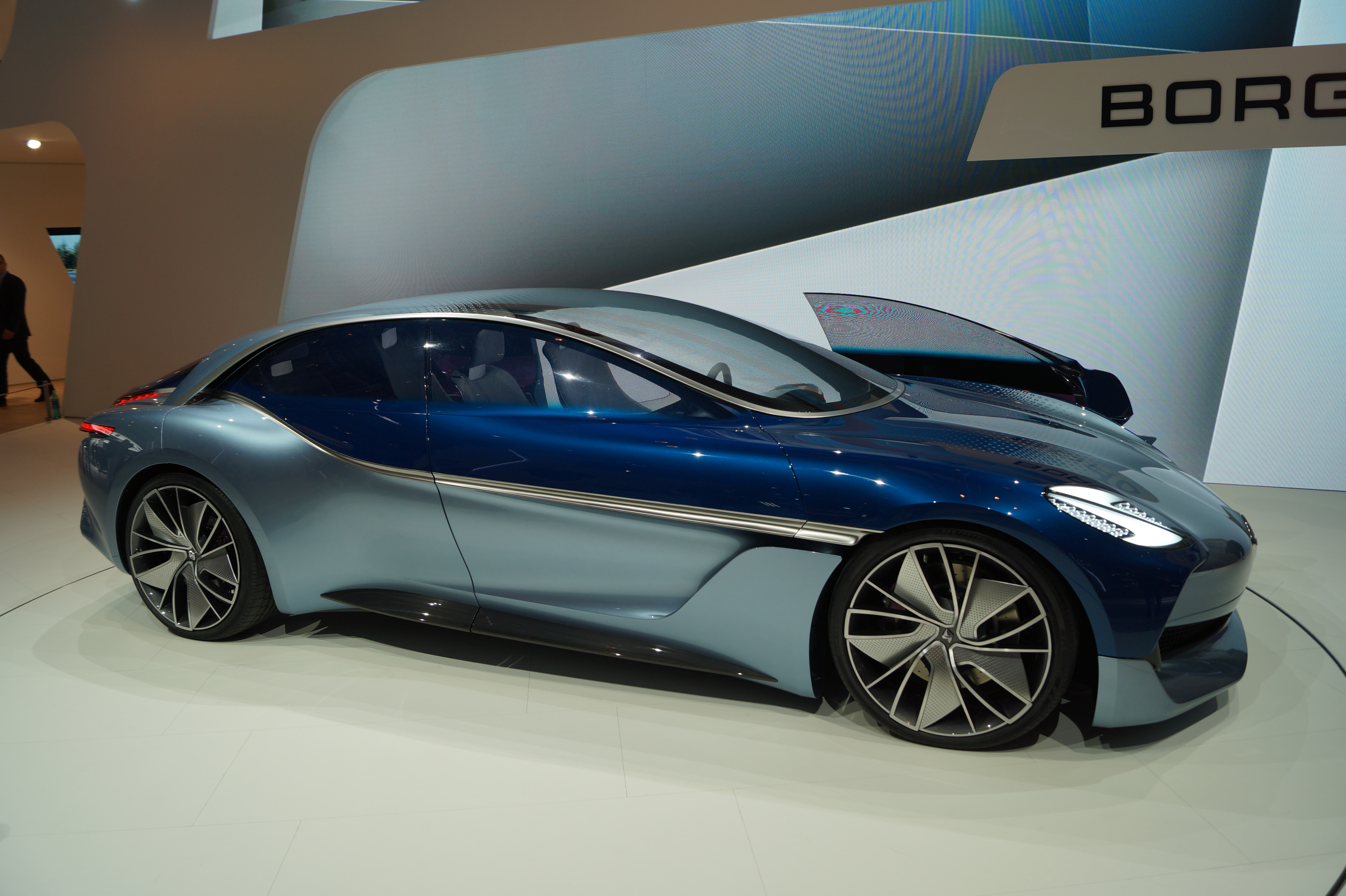 Borgward Isabella at IAA 2017